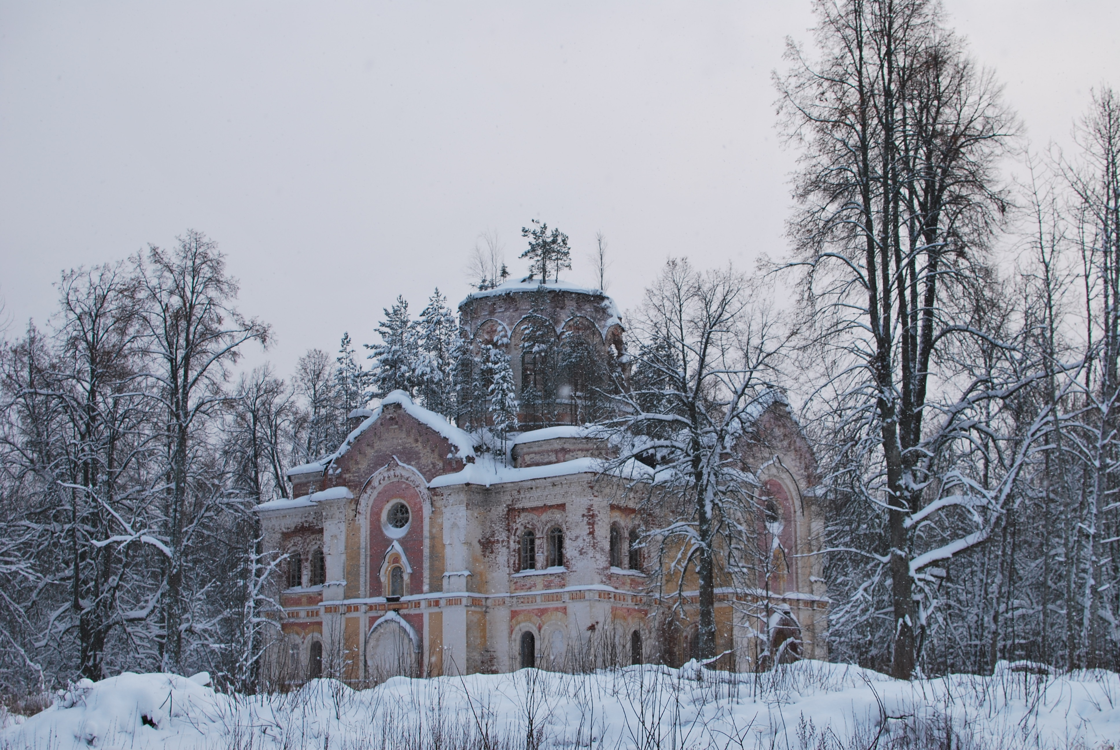 Troitsky cathedral in Rekonsky monastery